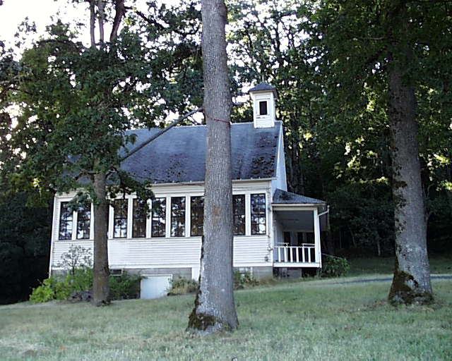 The former Spring Valley School in Polk County, Oregon, now a community center